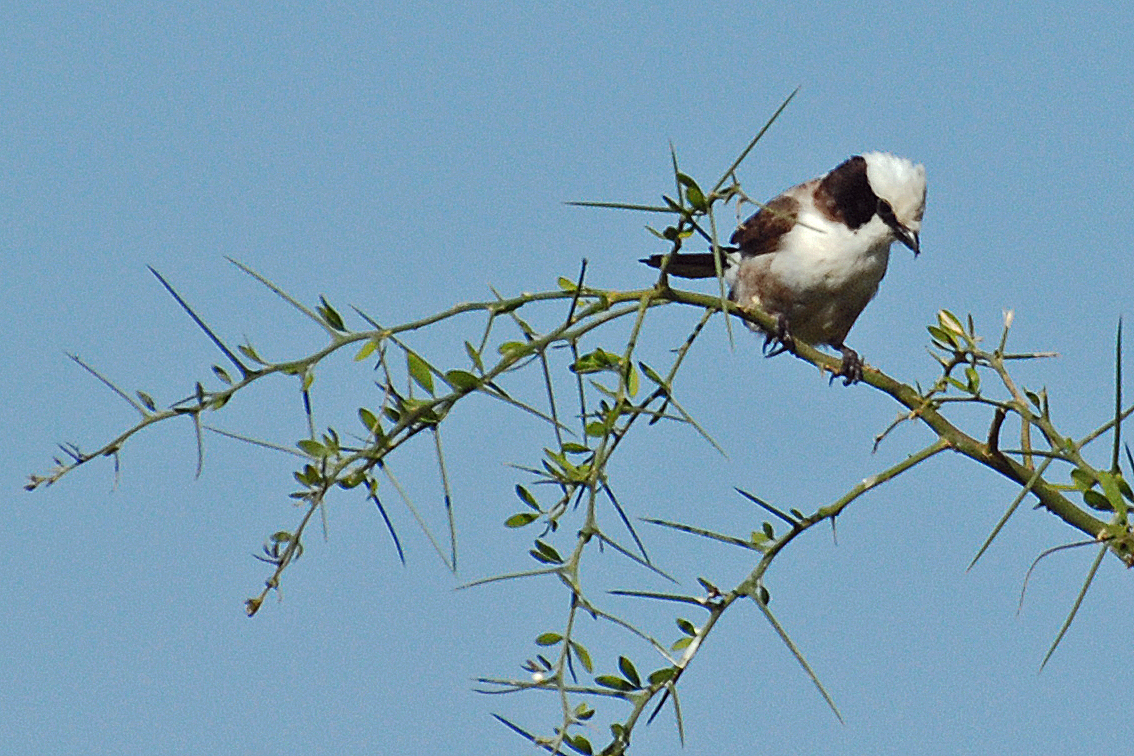 The Northern White-crowned Shrike or White-rumped Shrike (Eurocephalus rueppelli) is a shrike found in dry thornbush, semi-desert, and open acacia woodland in east Africa